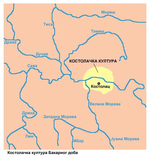 Copper Age Kostolac culture.